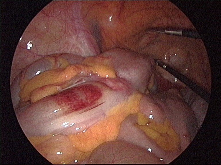 Intraoperativ view (laparoscopic operation) of malignant tumor of sigma